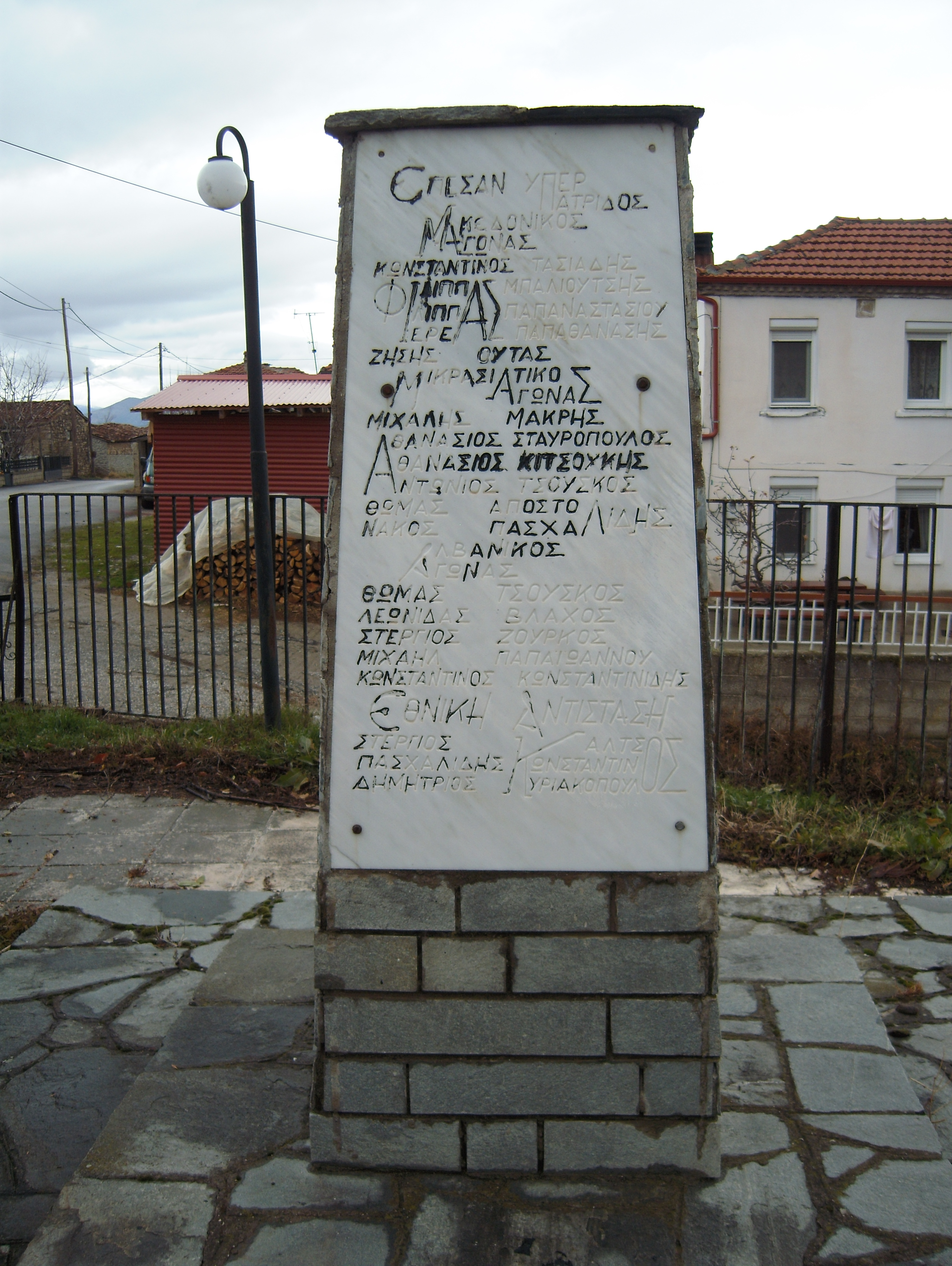 Zhuzheltsi / Spilaia